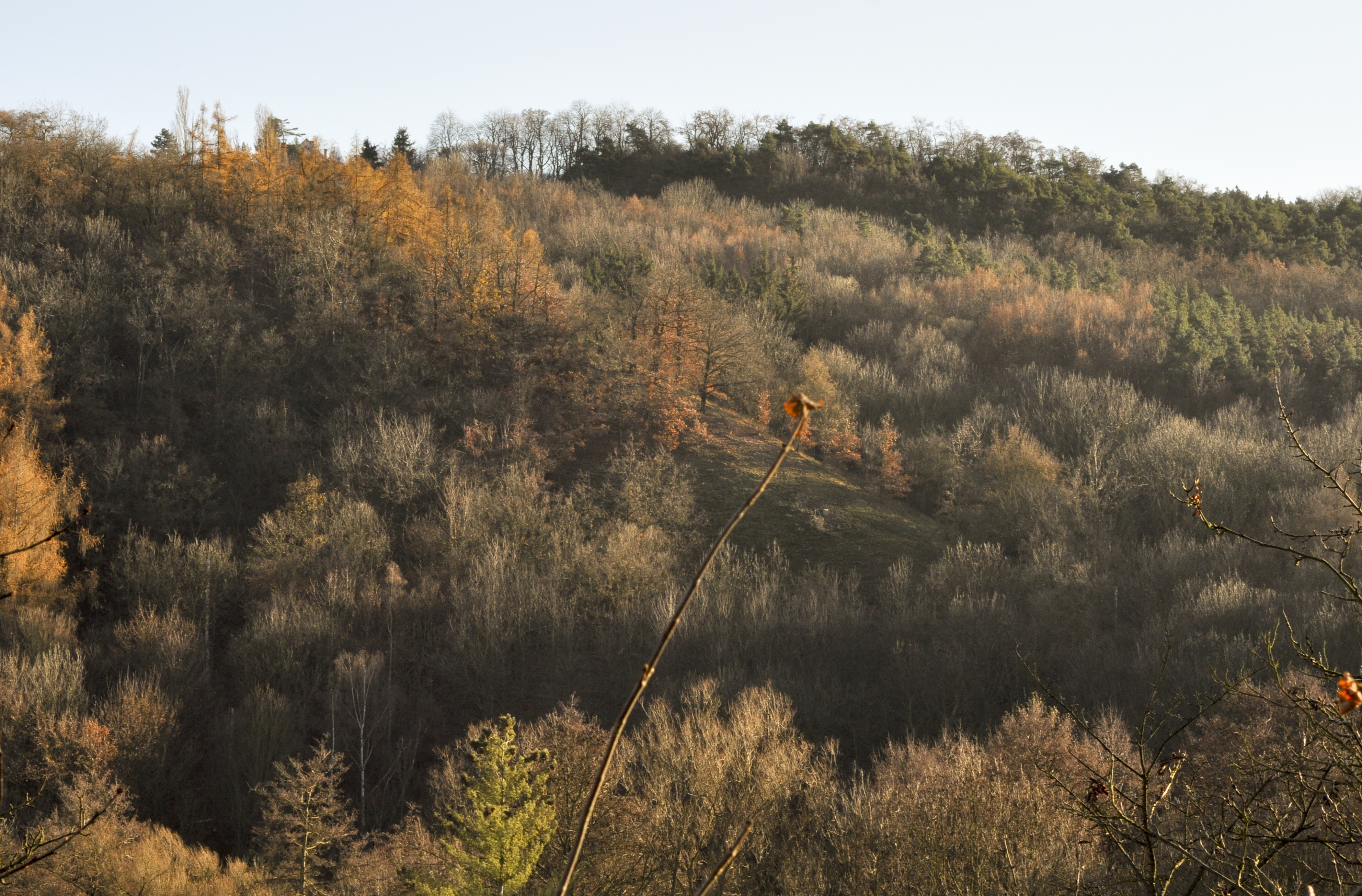 Natural Monument Zlatnice - view from the opossite slope of Šárka valley